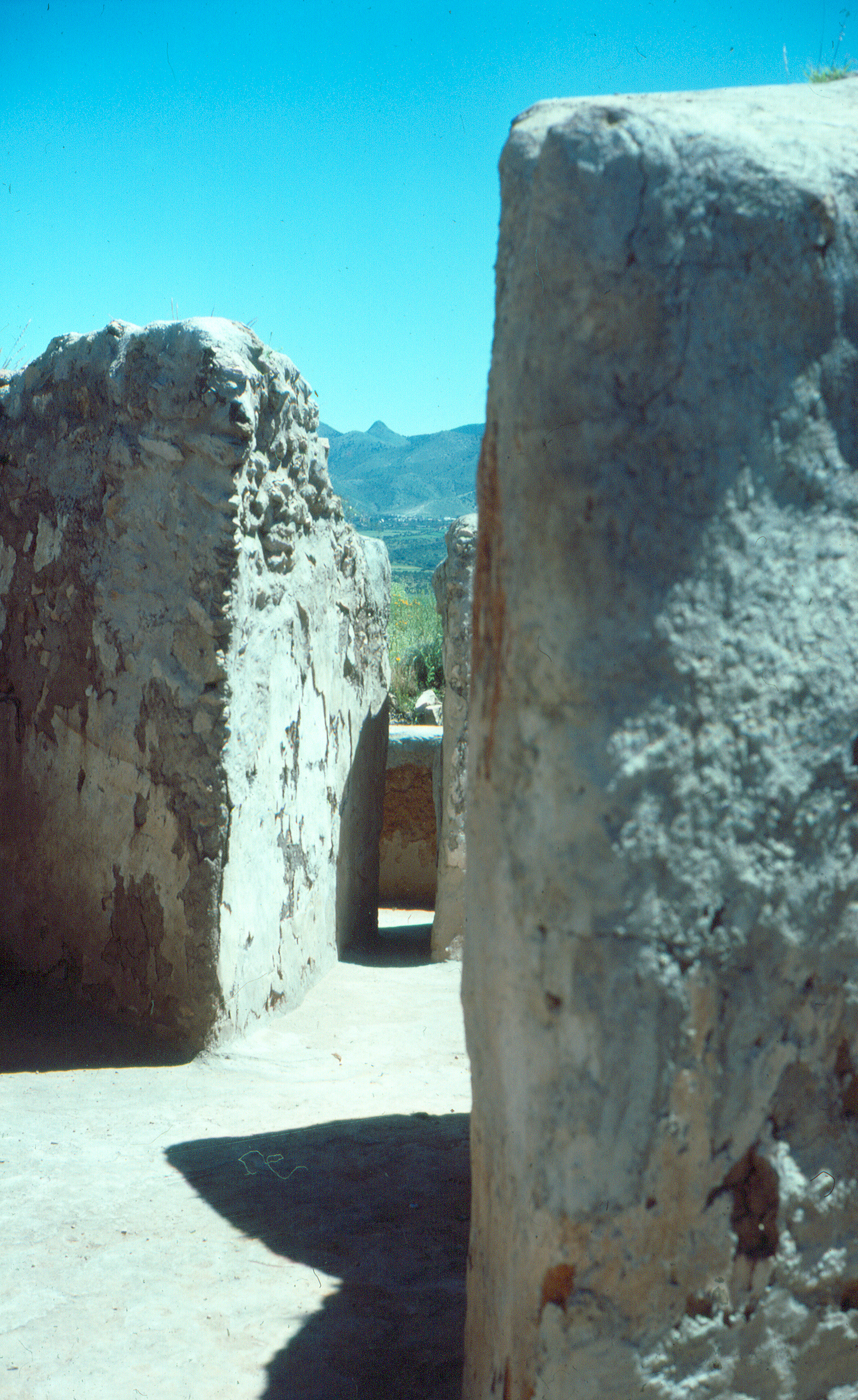 Alta Vista (Chalchihuites), Zacatecas, Mexico: Solar observatory